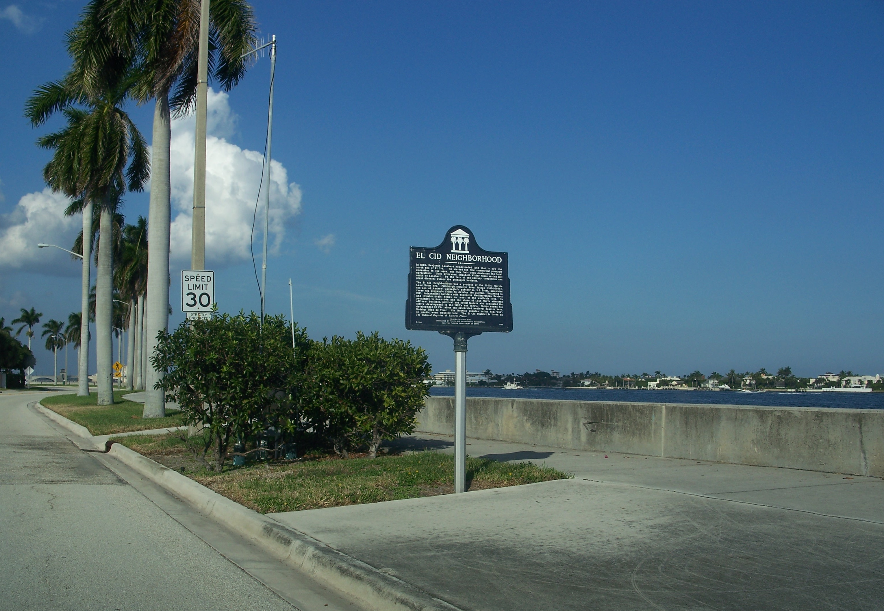 West Palm Beach, Florida: El Cid Historic District: Historical marker